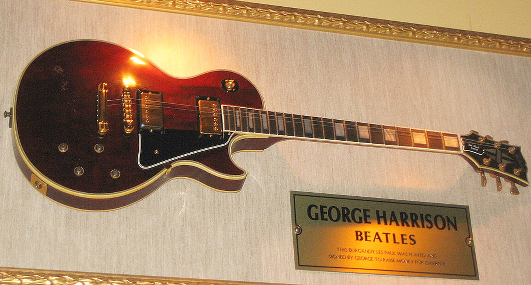 Guitar of George Harrison (The Beatles). Picture taken in Hard Rock Cafe, San Francisco, California.